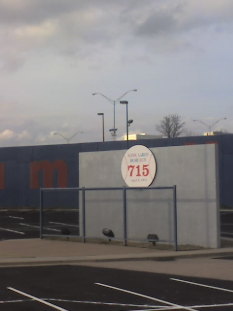 I took this picture using a camera phone outside of Turner Field. 20:34, 25 February 2007 . . Jorfer . . 480×640 (85,903 bytes)